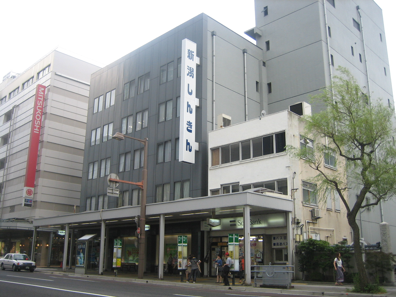 Niigata shinkin bank